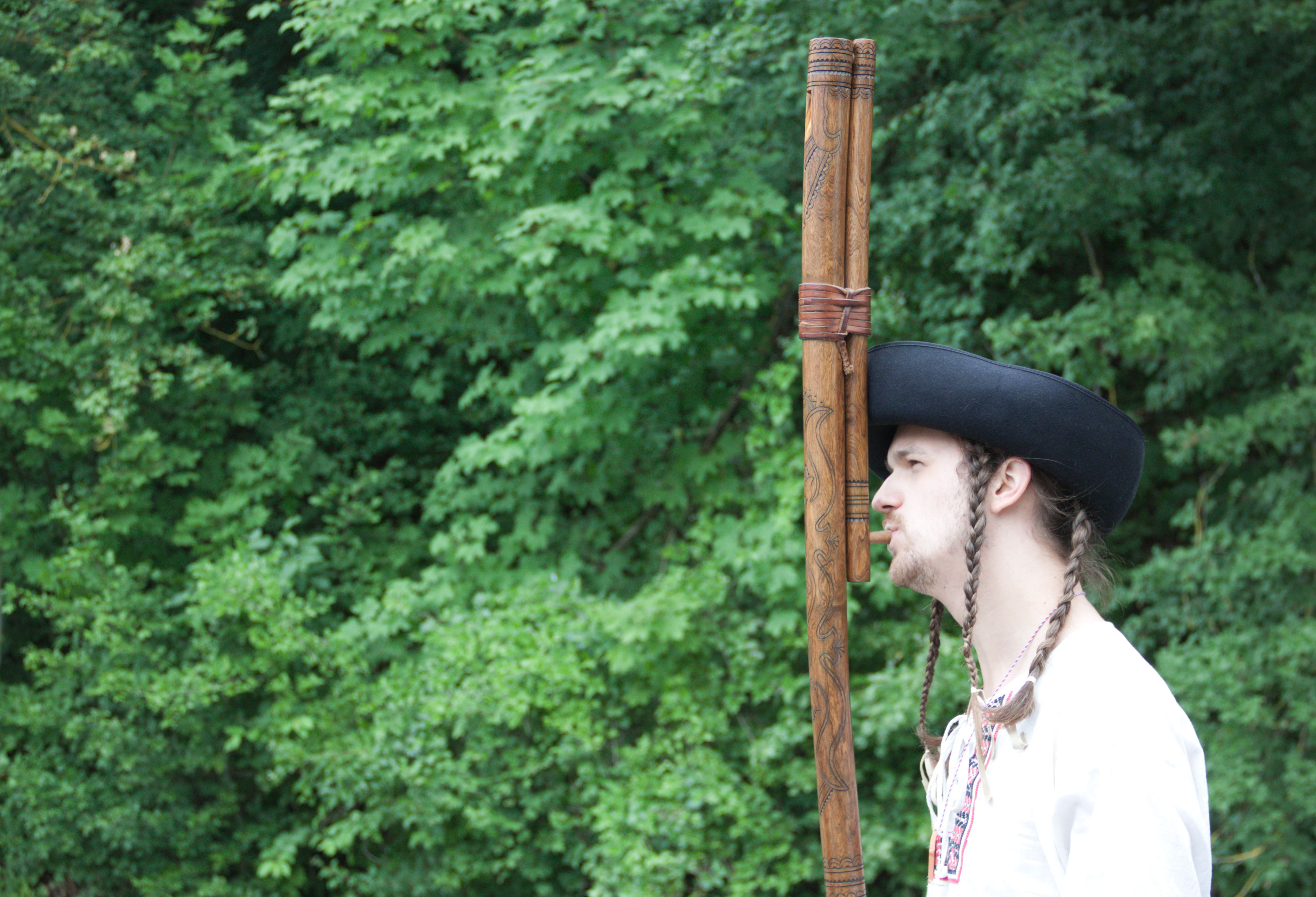 Jano Adamek - słowacki muzykant (fujara słowacka).Carpathian Ethnography Project, Slovakia, third day, Myjava Festival 2017. Photo quality will be improved later.